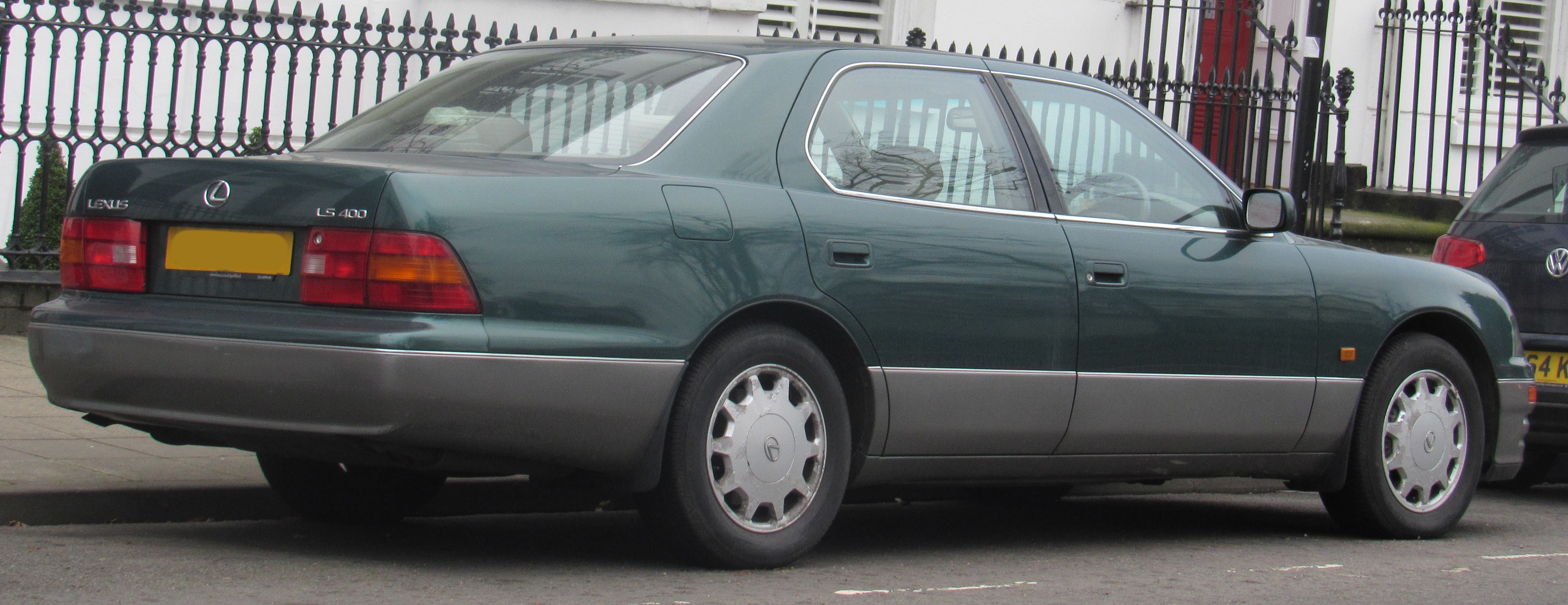 1996 Lexus LS 400 4.0 Rear Taken in Leamington Spa